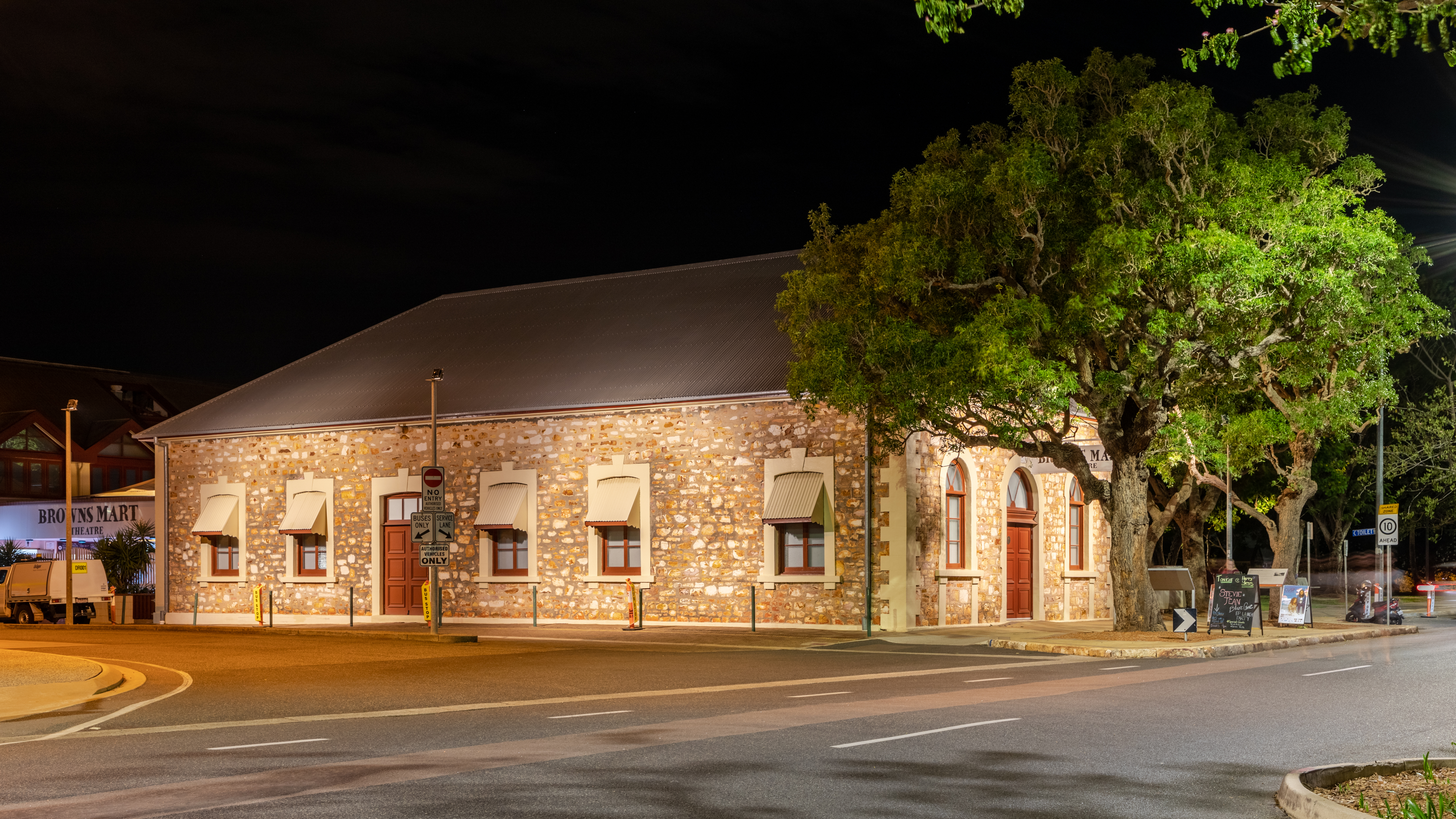 Browns Mart Theatre, Darwin, Northern Territory, Australia